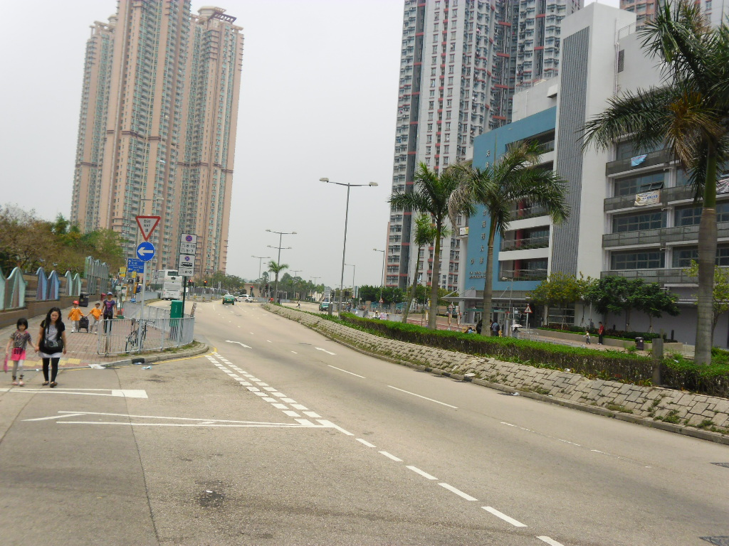 Tin Kwai Road, near Tin Ching Estate, Tin Shui Wai 中文（香港）: 天水圍天葵路近天晴邨第2期出入口